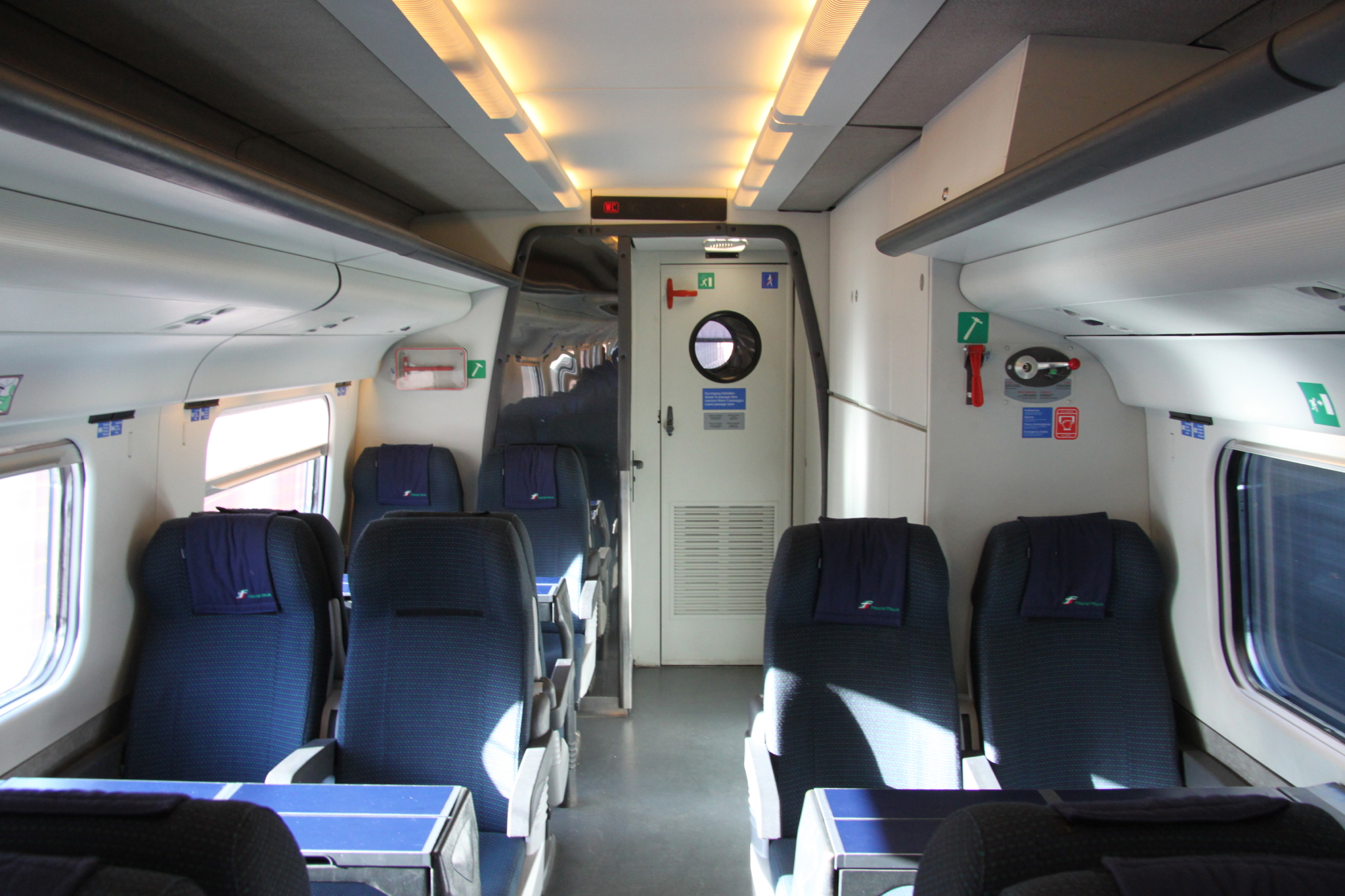 Interior of FS ETR 470-053 BAC; the train was operating EuroCity 30021 from Zürich HB to Milano C.le.